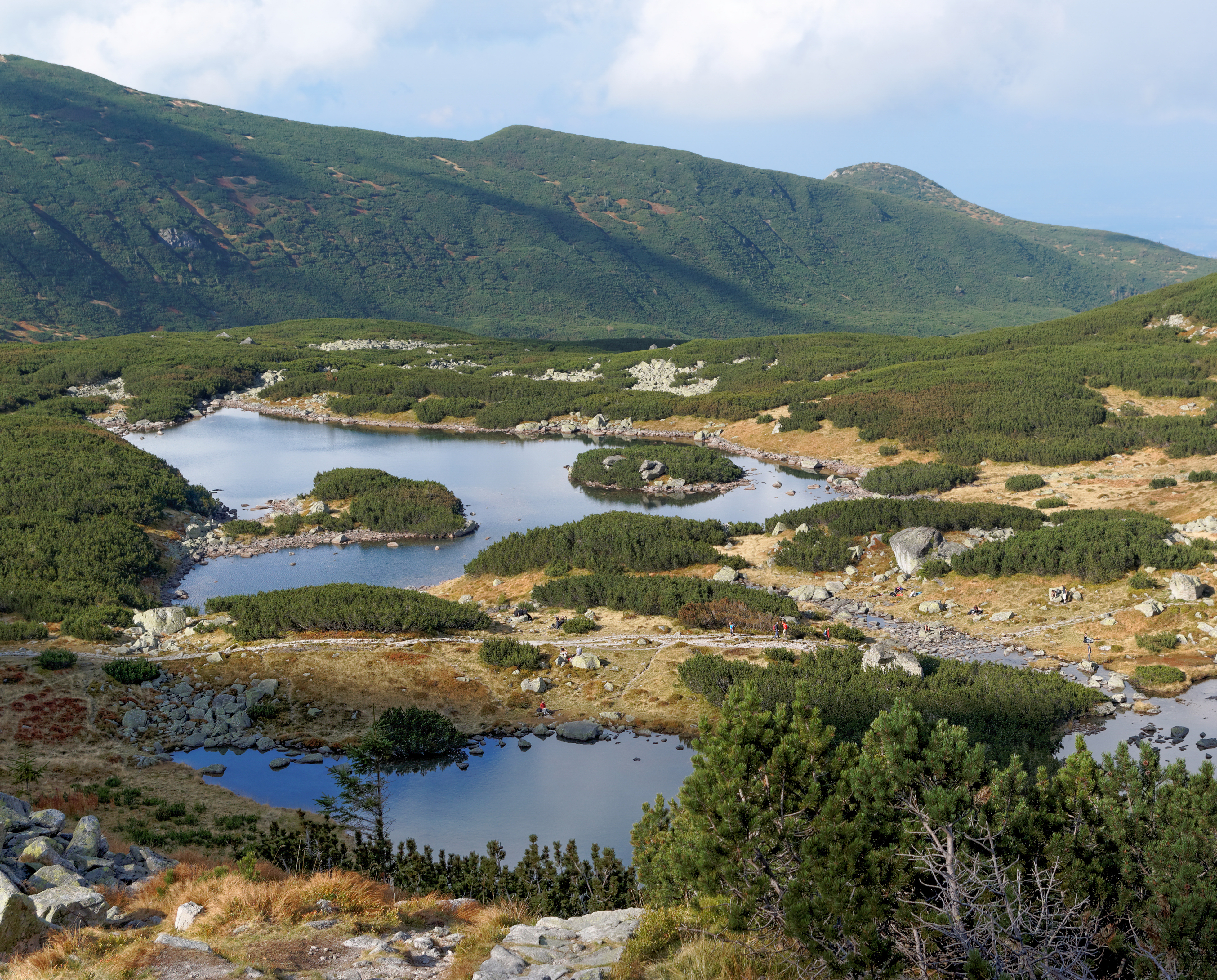 Kurtkowiec Lake and Czerwone Gąsienicowe Ponds in Tatra Mountains